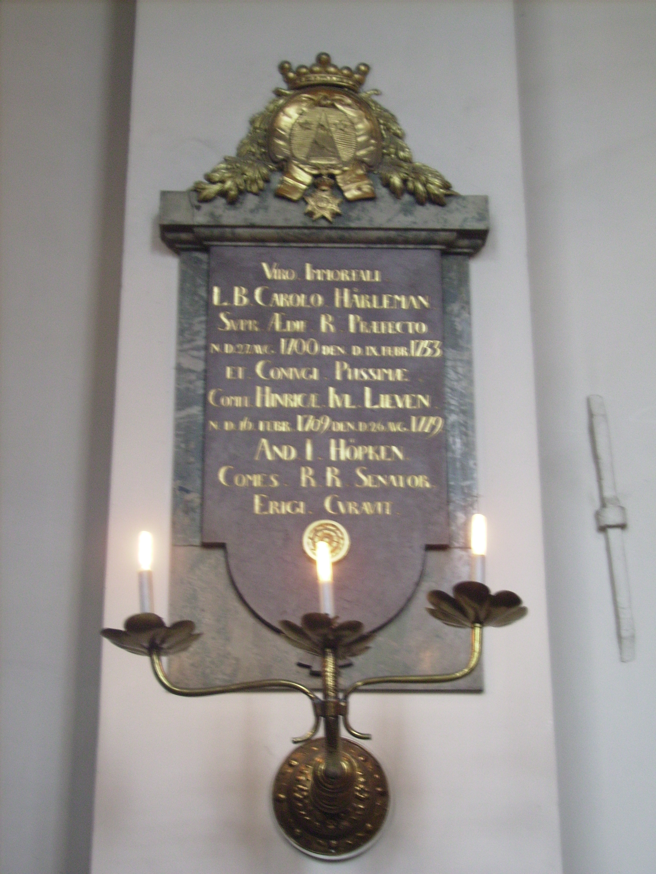 Carl Hårleman's grave at Clara kyrka, Stockholm